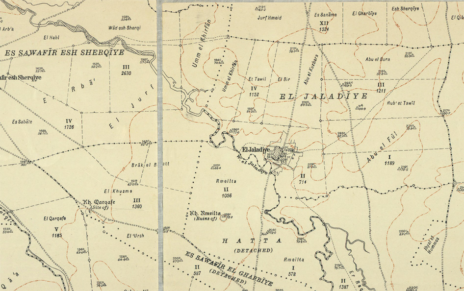 el Jaladiye 1930 1:20,000